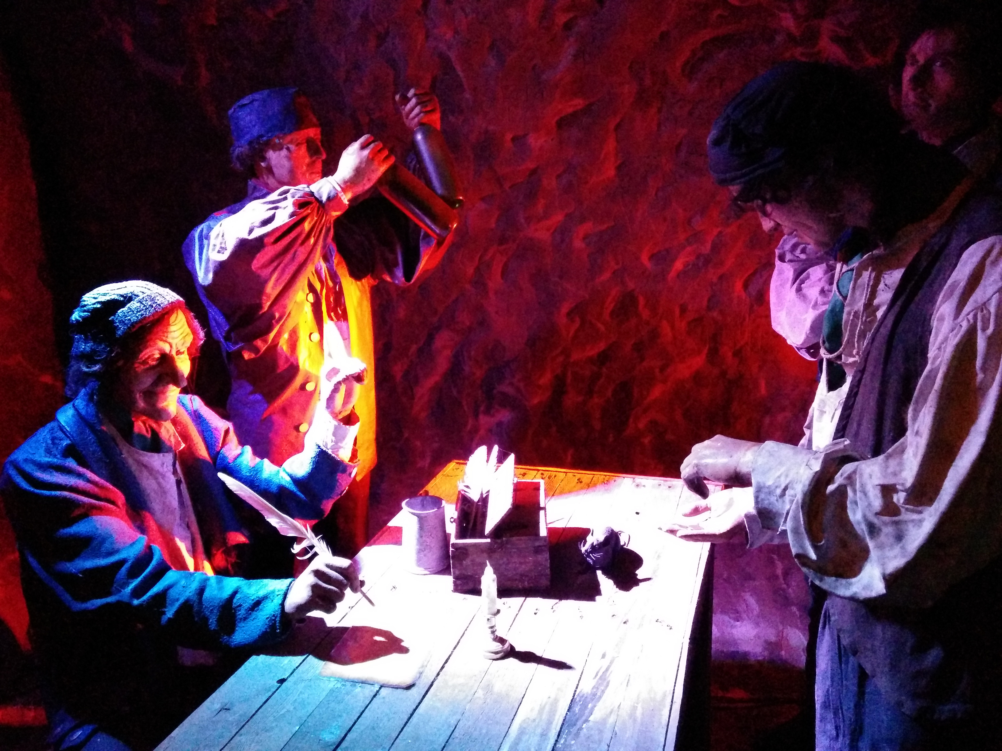 Smugglers tableau, Smuggler's Cave Adventure, Hastings, UK.